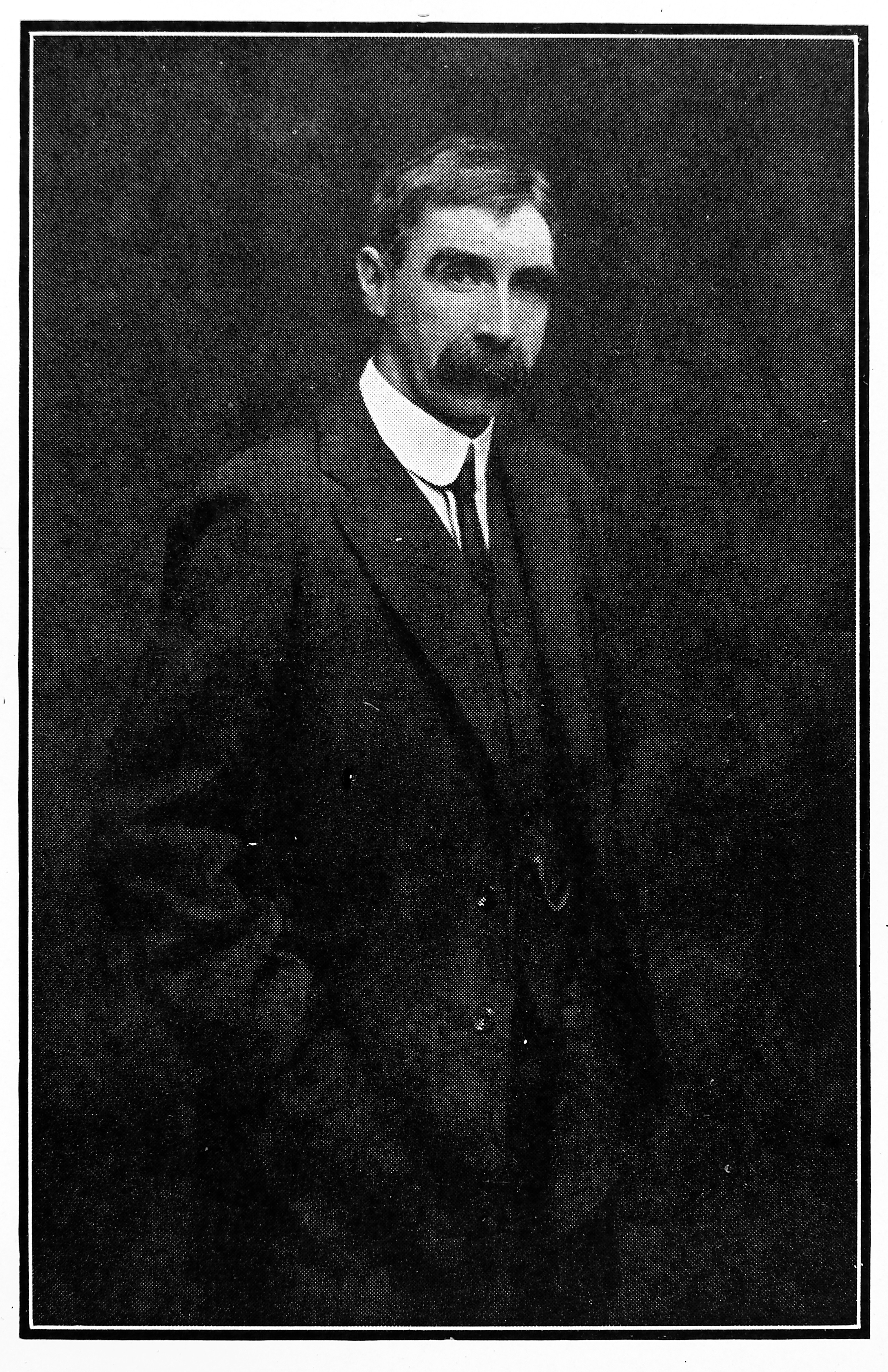 Portrait of James Ritchie, 3/4 standing. General Collections Keywords: James Ritchie